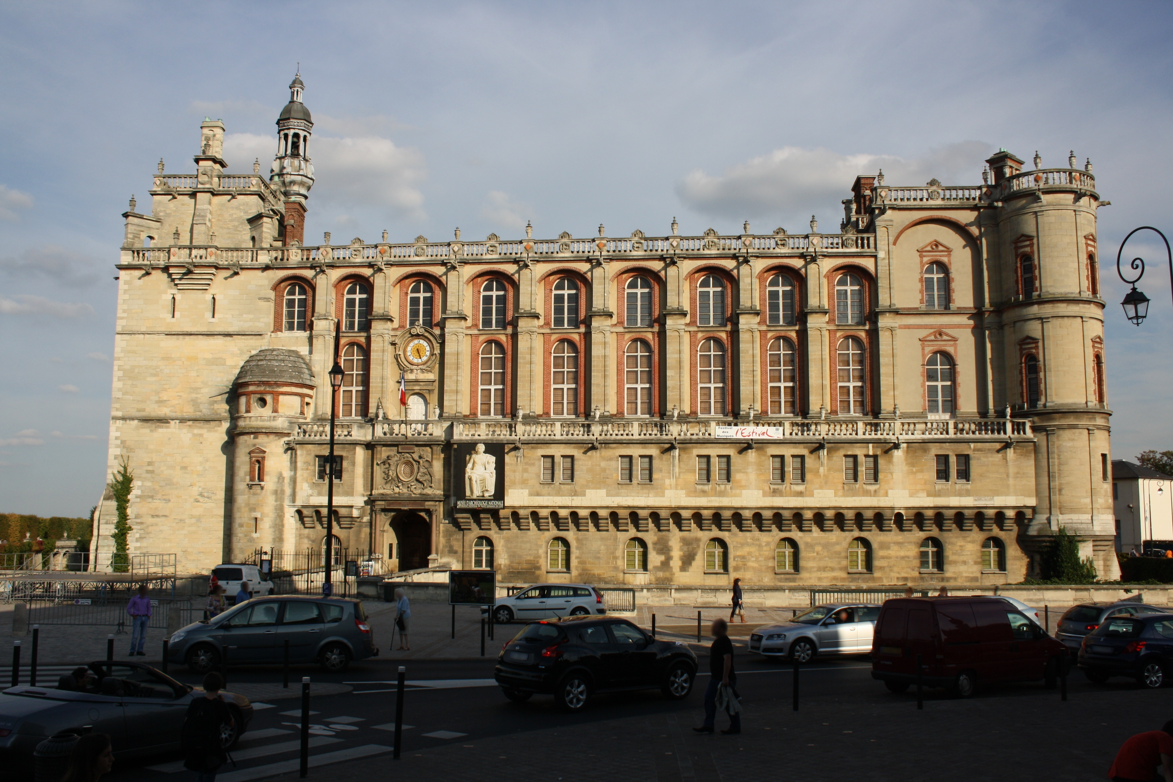 Château Vieux (old castle in french) located Charles de Gaulle place in Saint-Germain-en-Laye, France. House of the National Archaeological Museum (France).